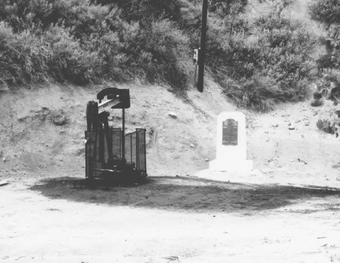 Downloaded from National Park Service. Photo 1961 [1]